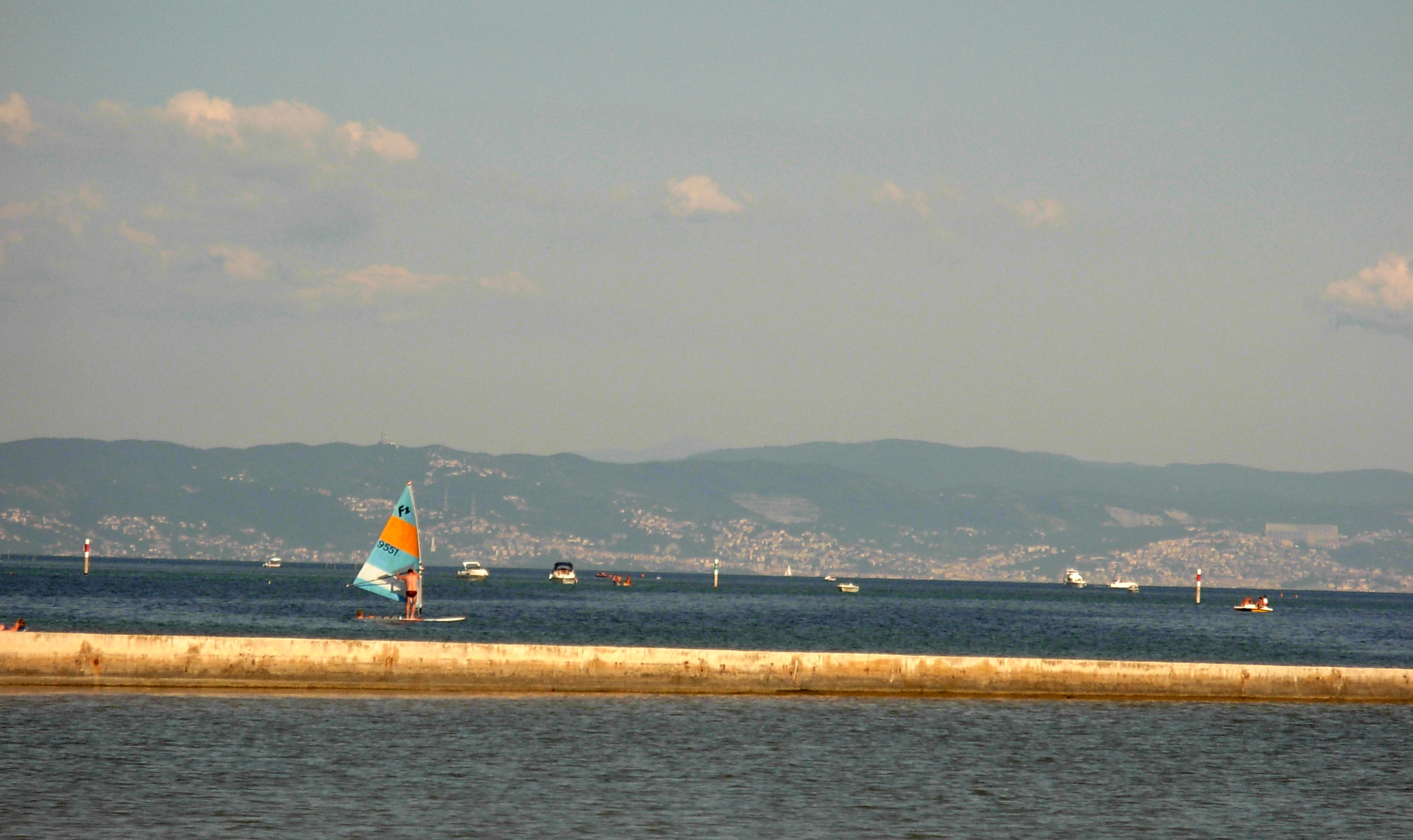 Adriatic sea near Grado